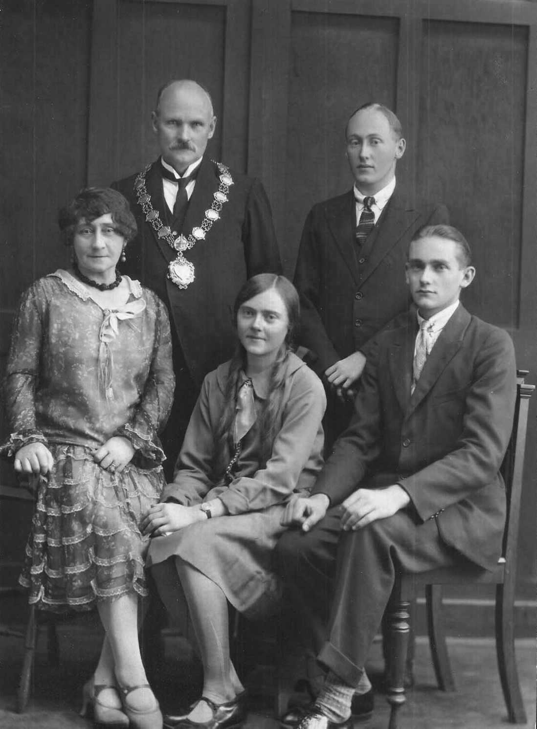 The Norton (George Norton) Family of Krugersdorp, South Africa with Gladys (center) after whom Gladysvale Cave is named. From left to right Mrs. George Norton, George Norton (Mayor of Krugersdorp who owned the mining rights to Gladysvale, Hubert Norton (standing right, back, and another un-named brother (seated).